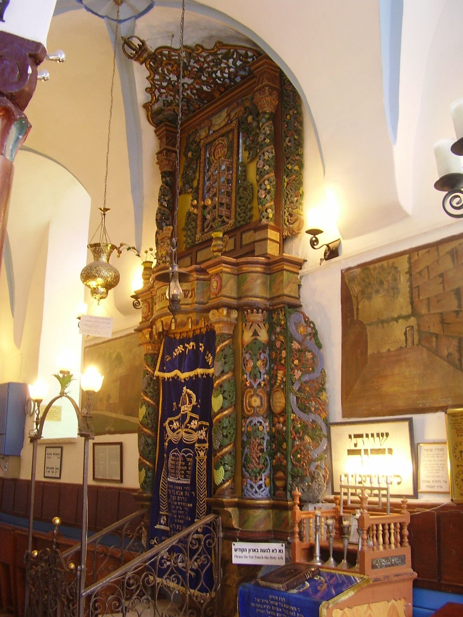 Ha'ari Ashkenazi Synagogue in Safed